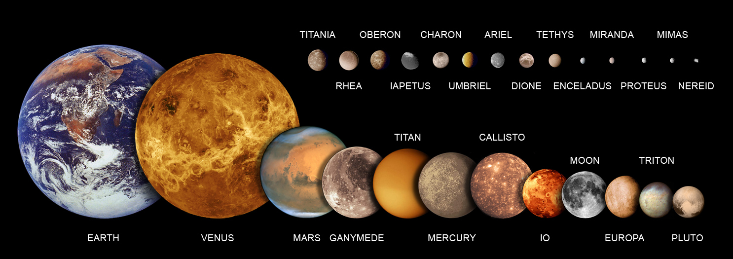 Relative sizes of 25 solary system objects smaller than Earth. This version was created and uploaded to fix flaws in the original created by User:tony_g100. All images taken from the source image or NASA images